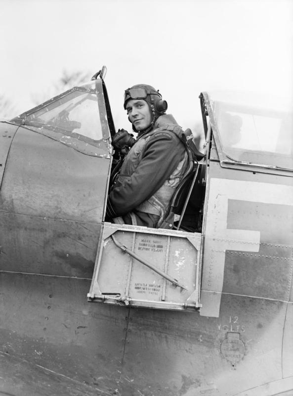 Photograph of Group Captain A G 'Sailor' Malan in the cockpit of his Supermarine Spitfire at Biggin Hill, Kent.